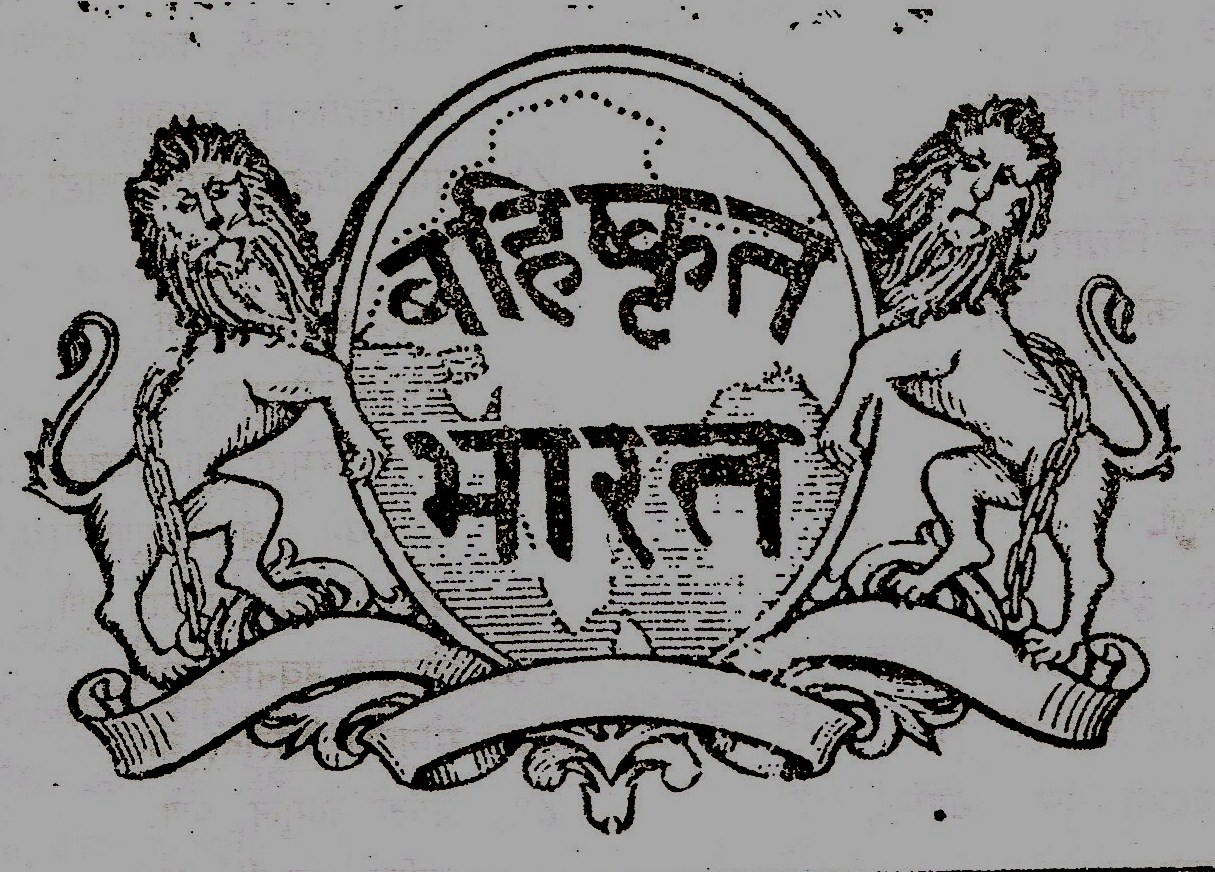 Logo of Bahishkrit Bharat (India Ostracised) - Marathi journals edited by Dr Babasaheb Ambedkar in 1927